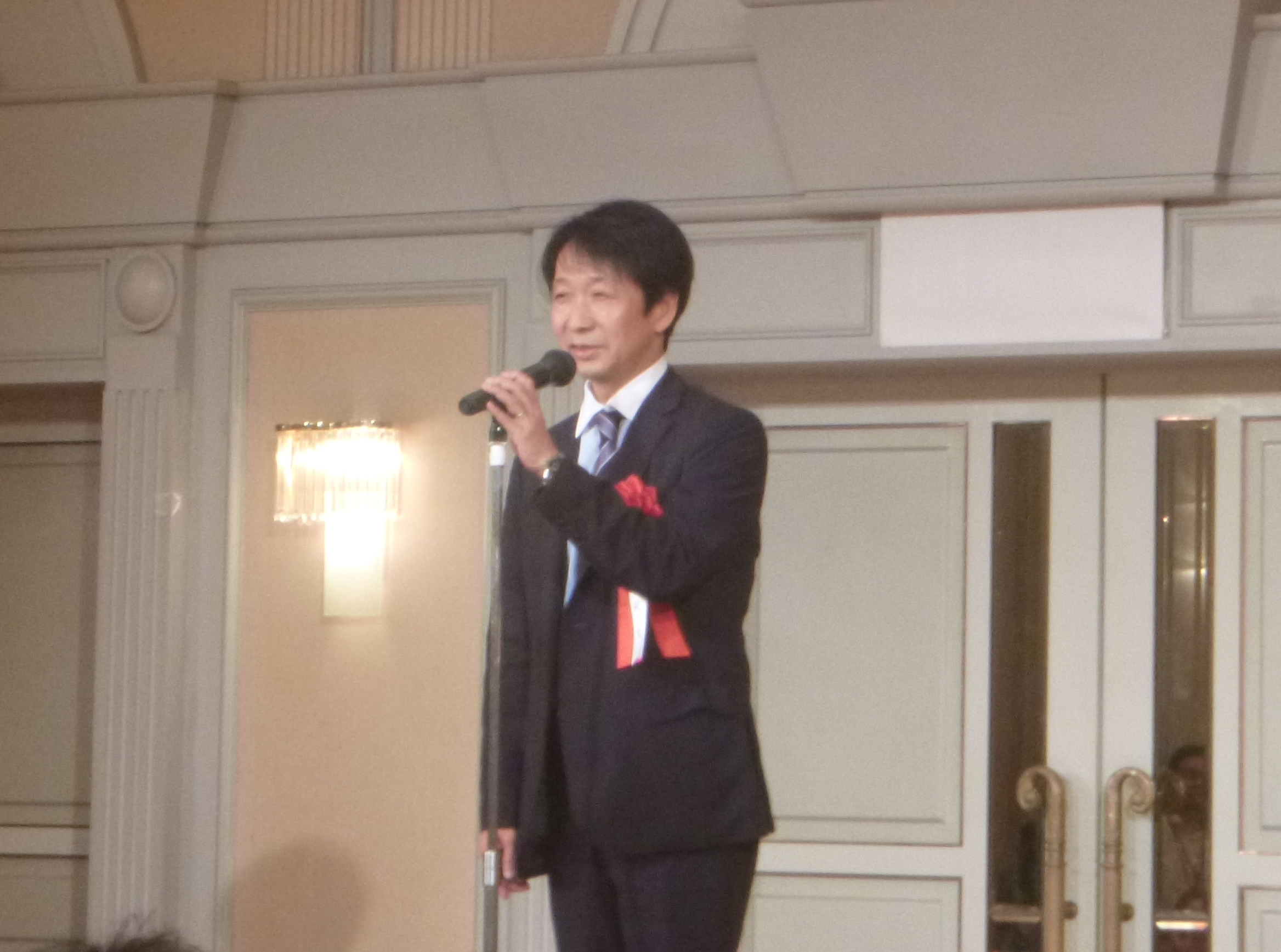 Japanese go player (president of Nihon Kiin) Satoru Kobayashi greeting at opening ceremony of World Go Festival in Takarazuka, Hyōgo, Japan.